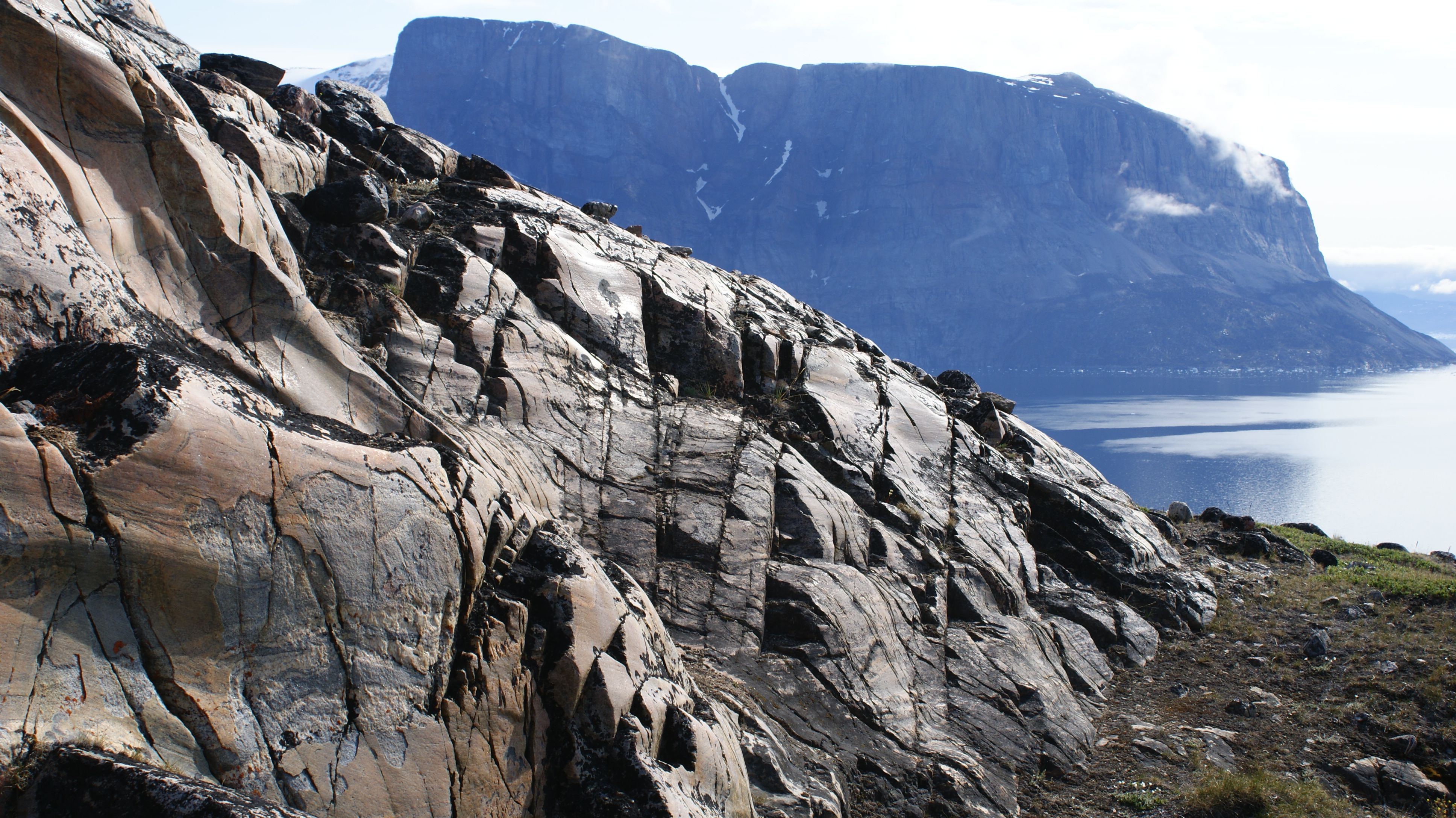 Salliaruseq Island and Assorput Strait, Greenland. Photographed from folded gneiss rocks above the Nuussuatsiaq promontory on Uummannaq Island.